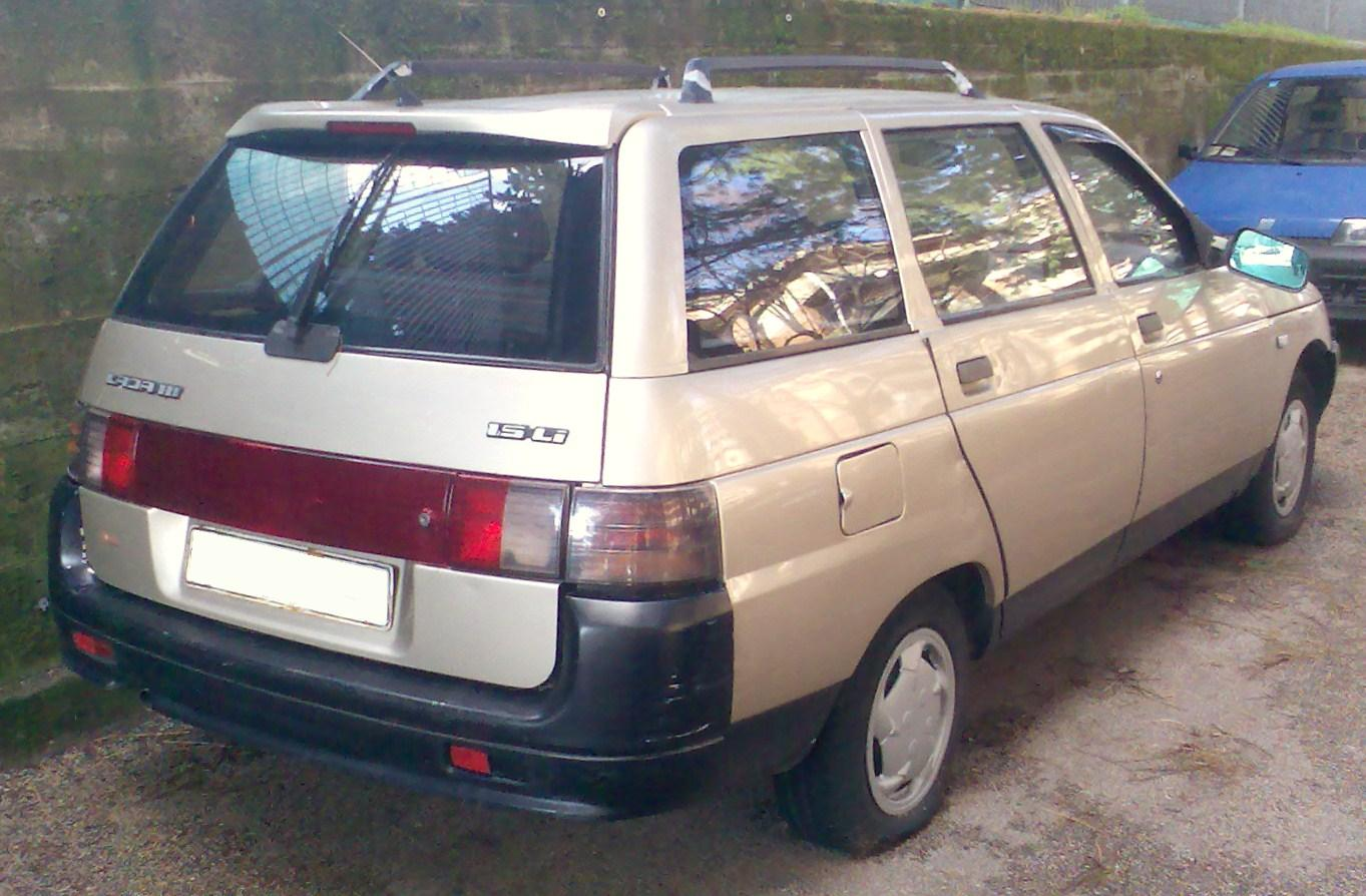 Lada 111